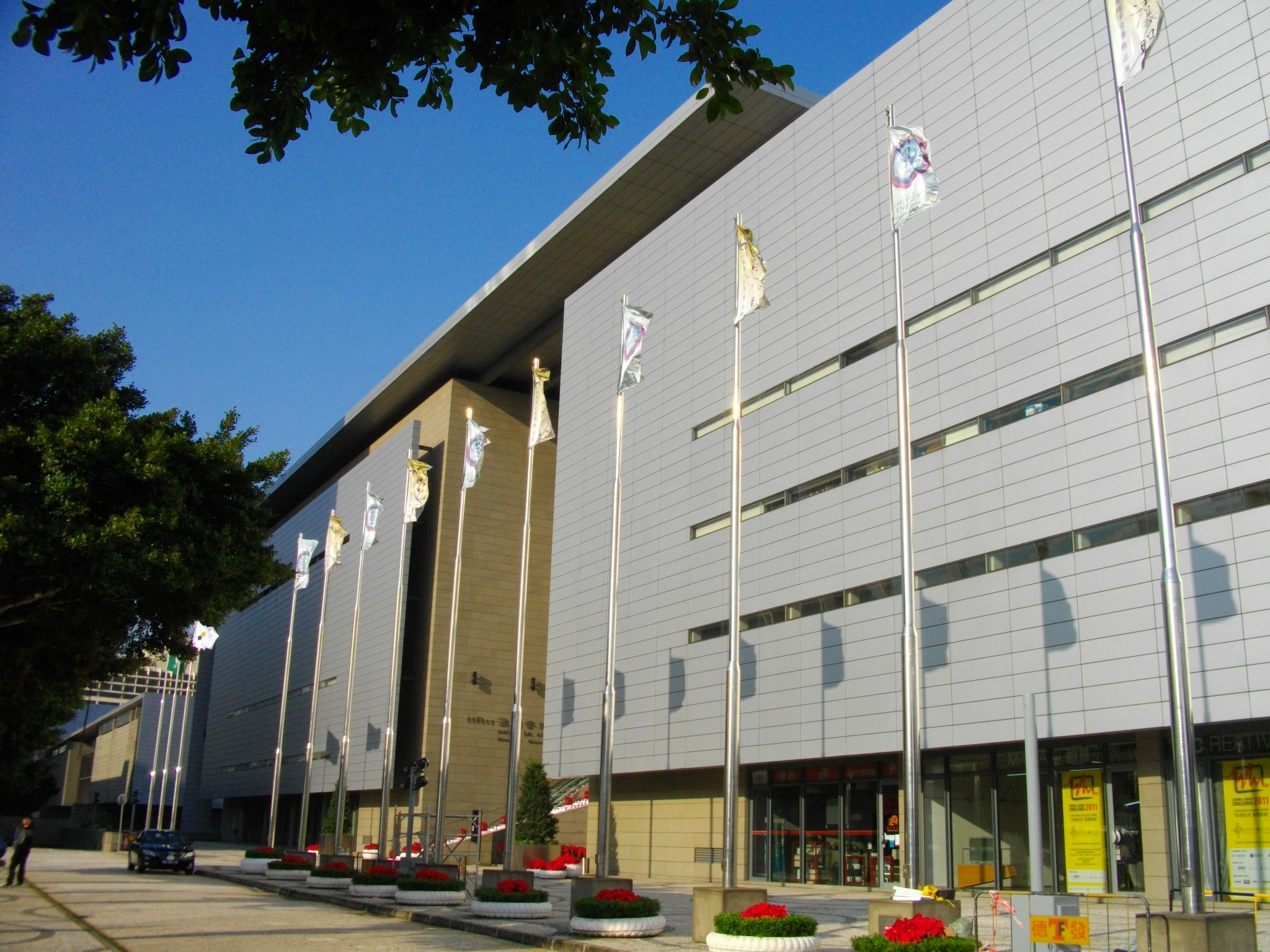 Macao Museum of Art